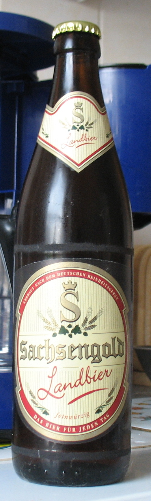 A bottle of Sachsgolden Landbier